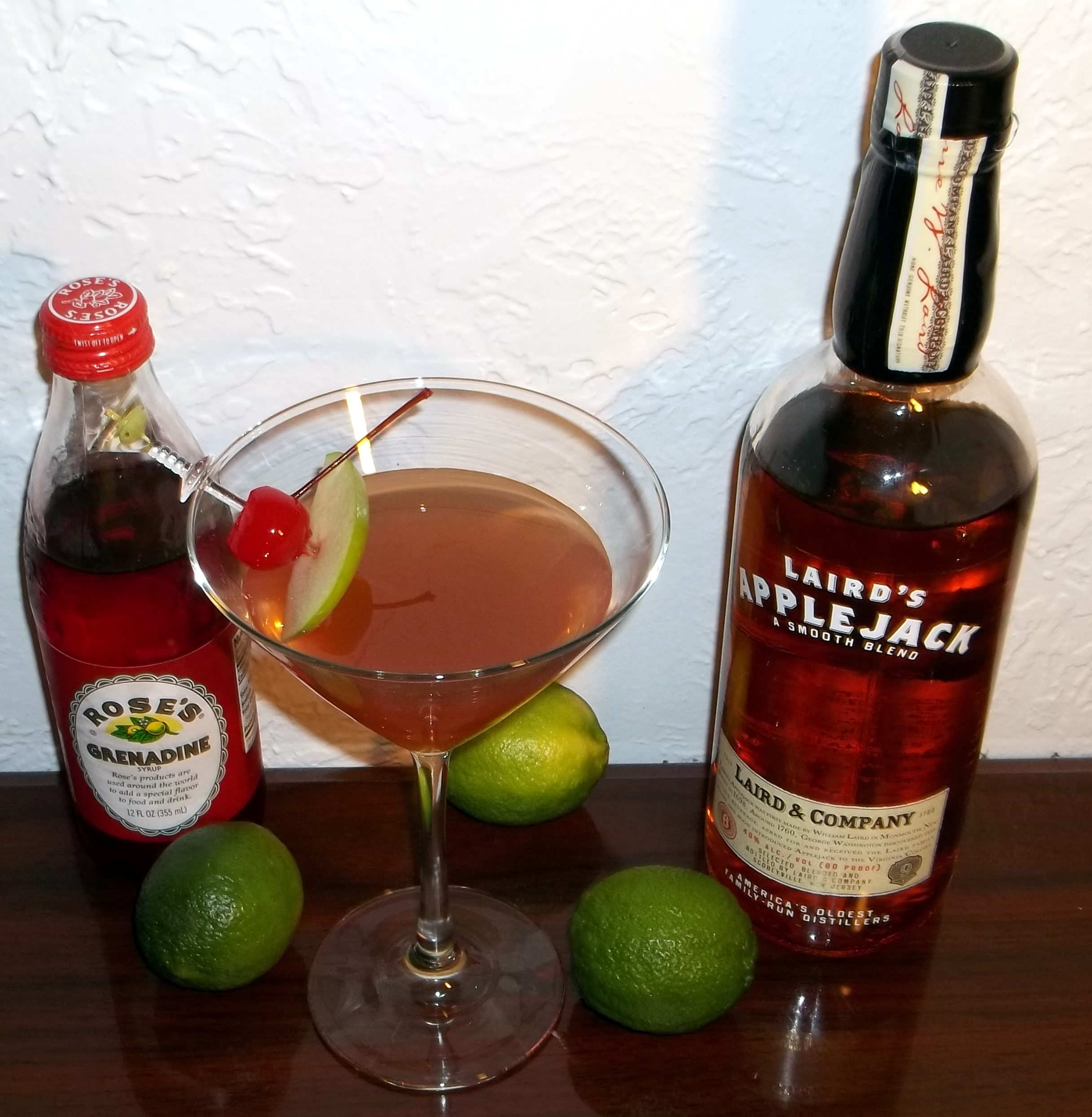 A Jack Rose cocktail, featuring applejack, limes, grenadine, and a prepared cocktail.